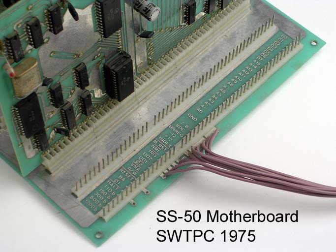 SWTPC 6800 Computer motherboard showing the SS-50 bus. Computer system produced by Southwest Technical Products Corp. in 1975 for $450. Photo by Michael Holley, February 2006